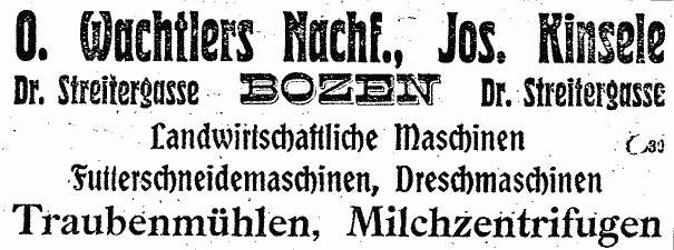 Oenology advertisement from 1919